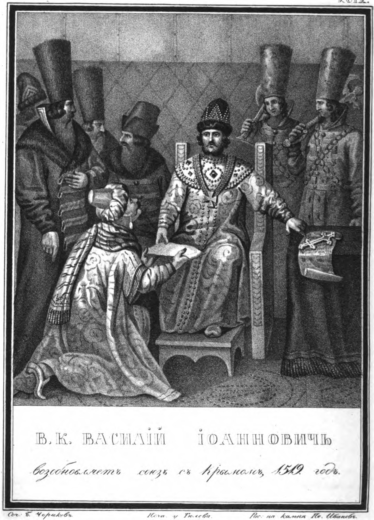 Illustration plate from the book Живописный Карамзин (1836), depicting the history of Russia.